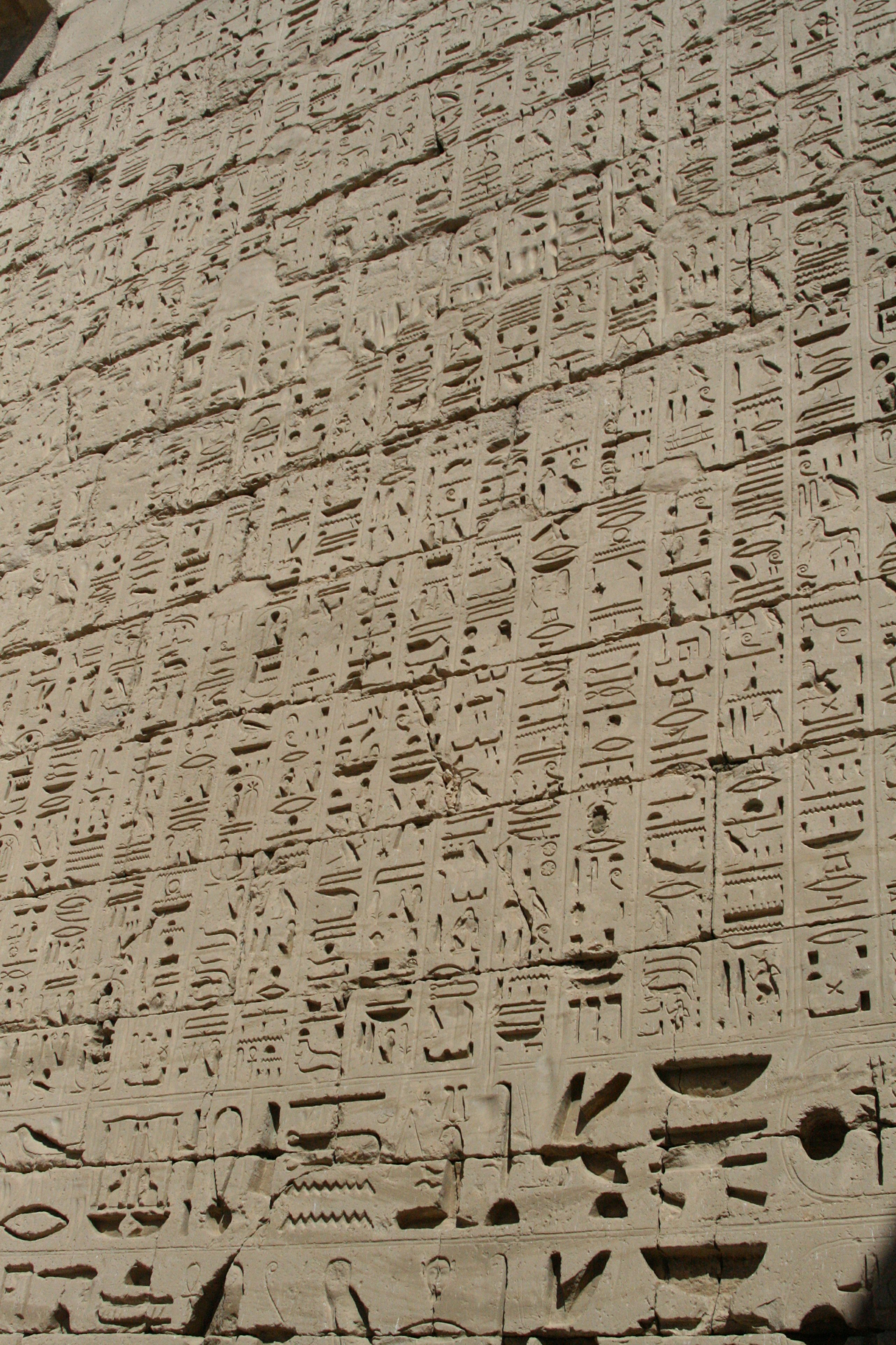 Medinet HAbu - Mortuary Temple of RAmeses III